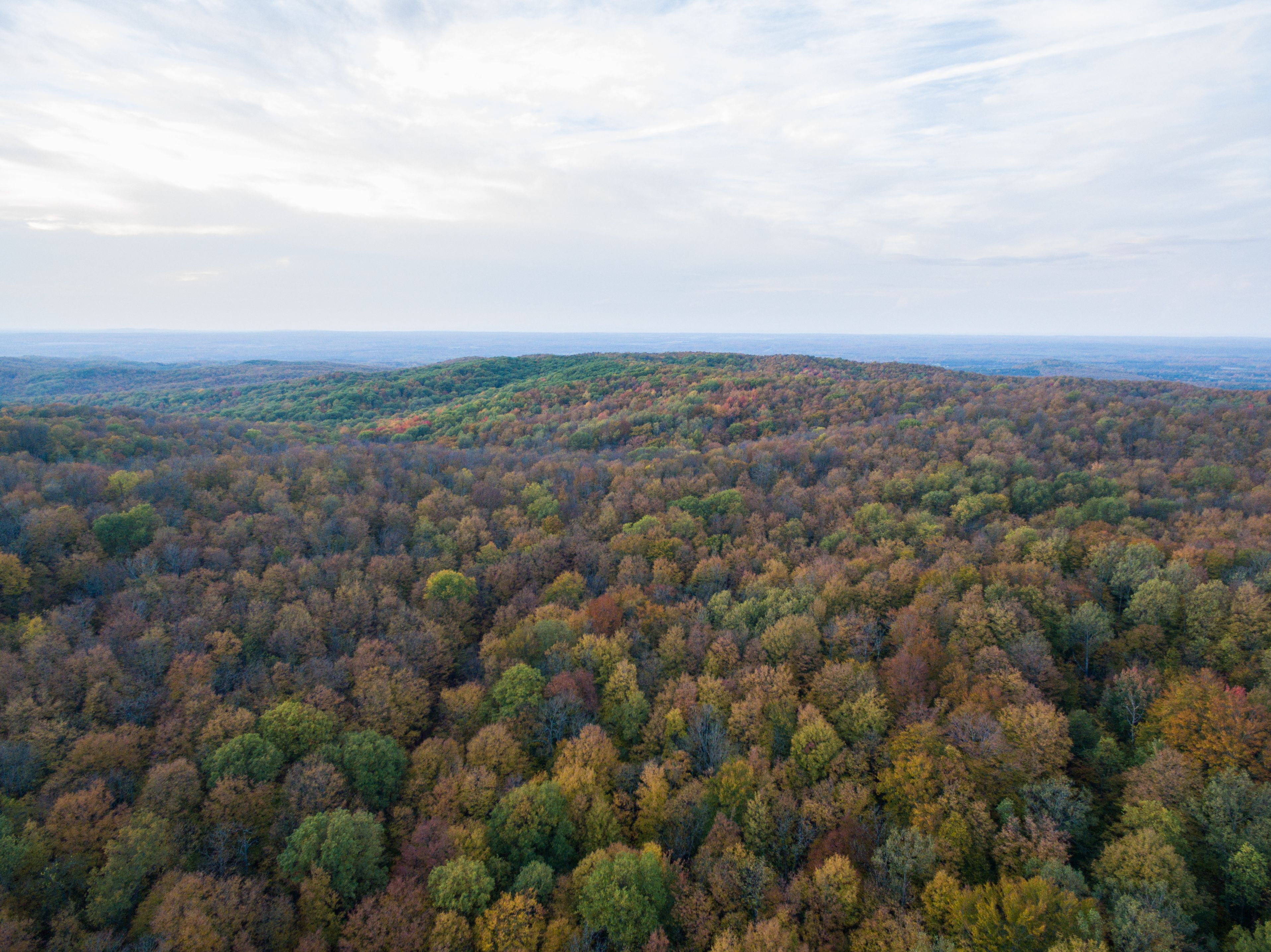 Wexford County, MI